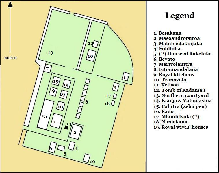 Layout of the Rova of Antananarivo royal palace in Madagascar, 1828.